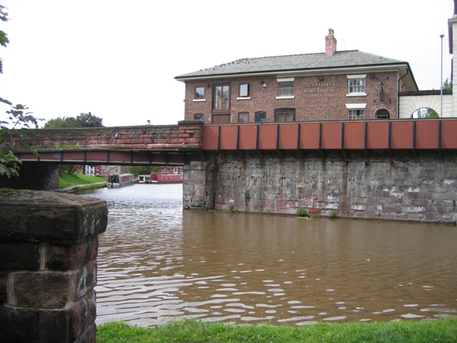 Telfords Warehouse and Shropshire Union Canal Telfords Warehouse is a Georgian building that has been reinvented as a fine music venue, wine bar, restaurant and art gallery. Much of the original structure and artefacts can be seen inside the building. The Shropshire Union Canal, without which 'Telfords' would not exist, continues ahead towards Ellesmere Port, and to the right it ascends the Northgate flight of locks.